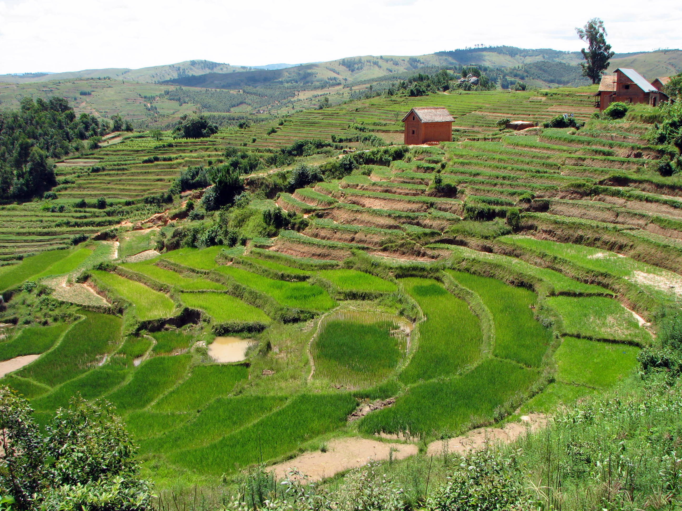 Agricultural terraces near Ambalandingana, Madagascar